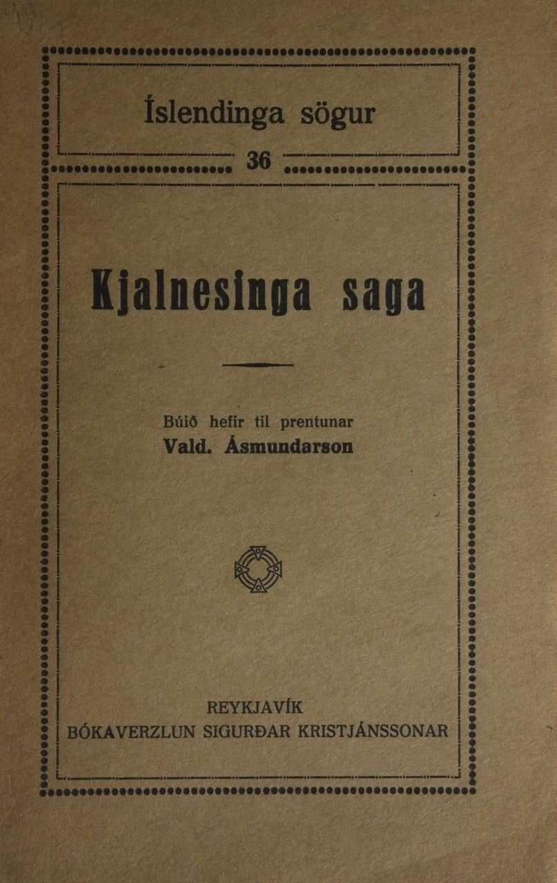 Kjalnesinga saga, 1931 edition, Bokaverzlun Sigurder Kristjansson (ed.), Valdimar Asmundarson, Reykjavik, Iceland